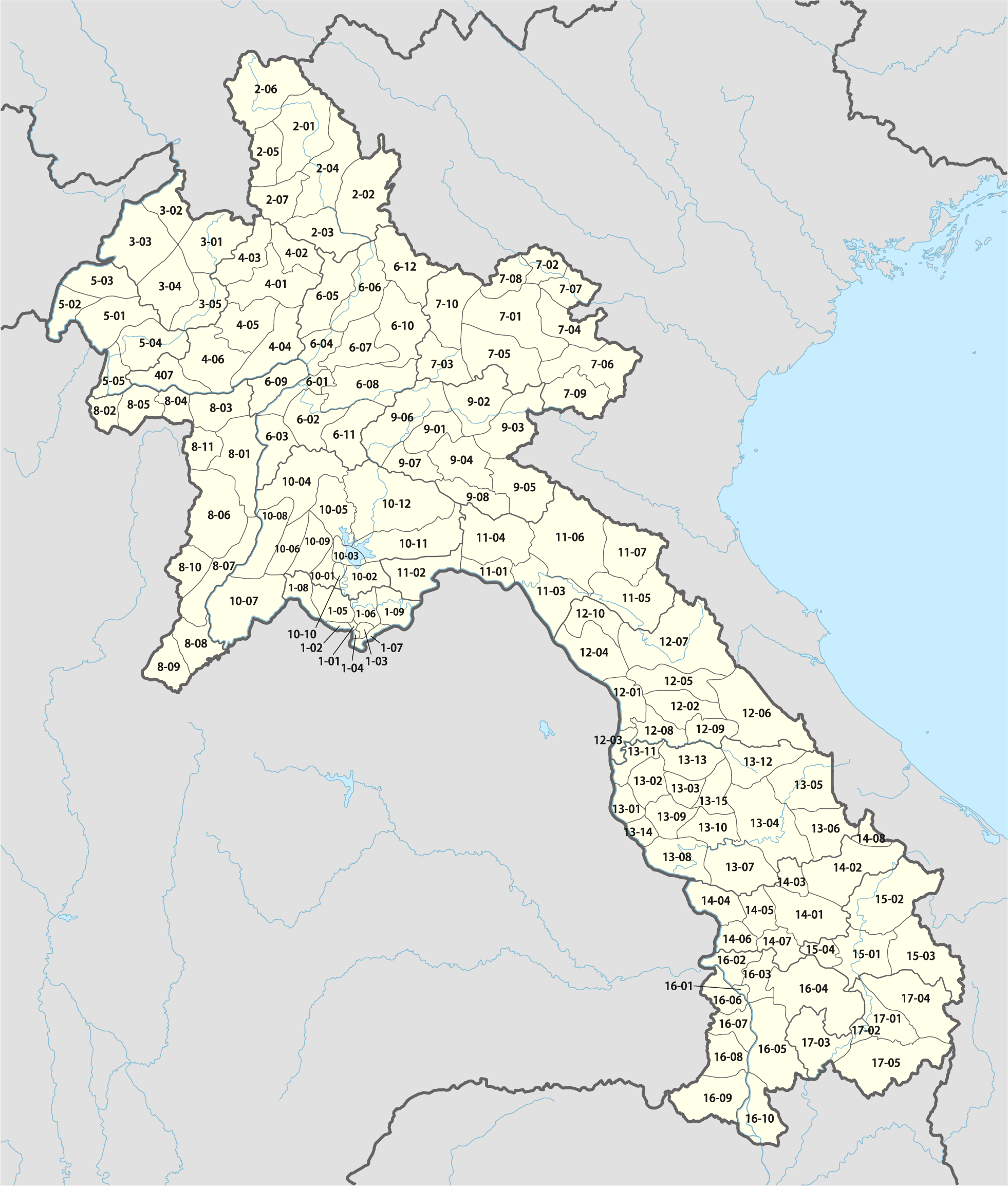 Map of the districts of Laos